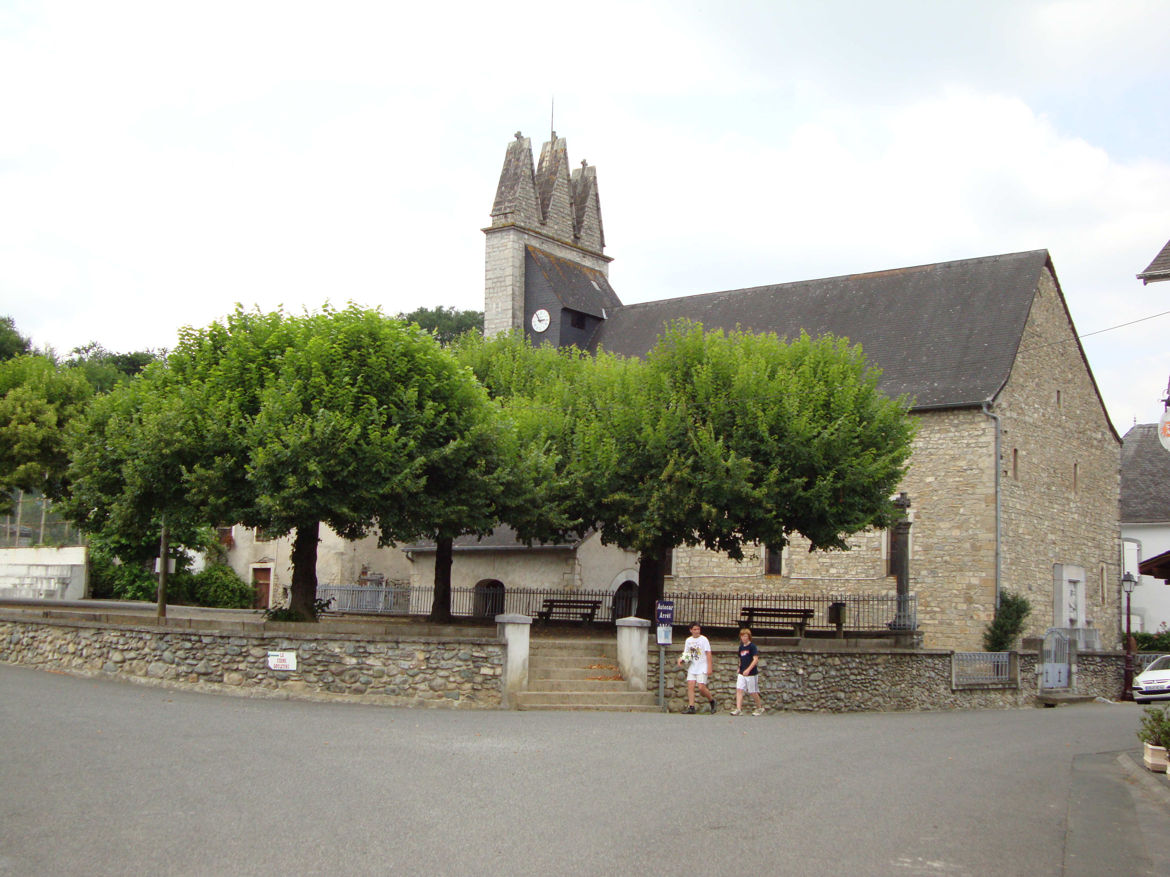 Viodos (Viodos-Abense-de-Bas, Pyr-Atl, Fr) village square with Viodos trinitarian church